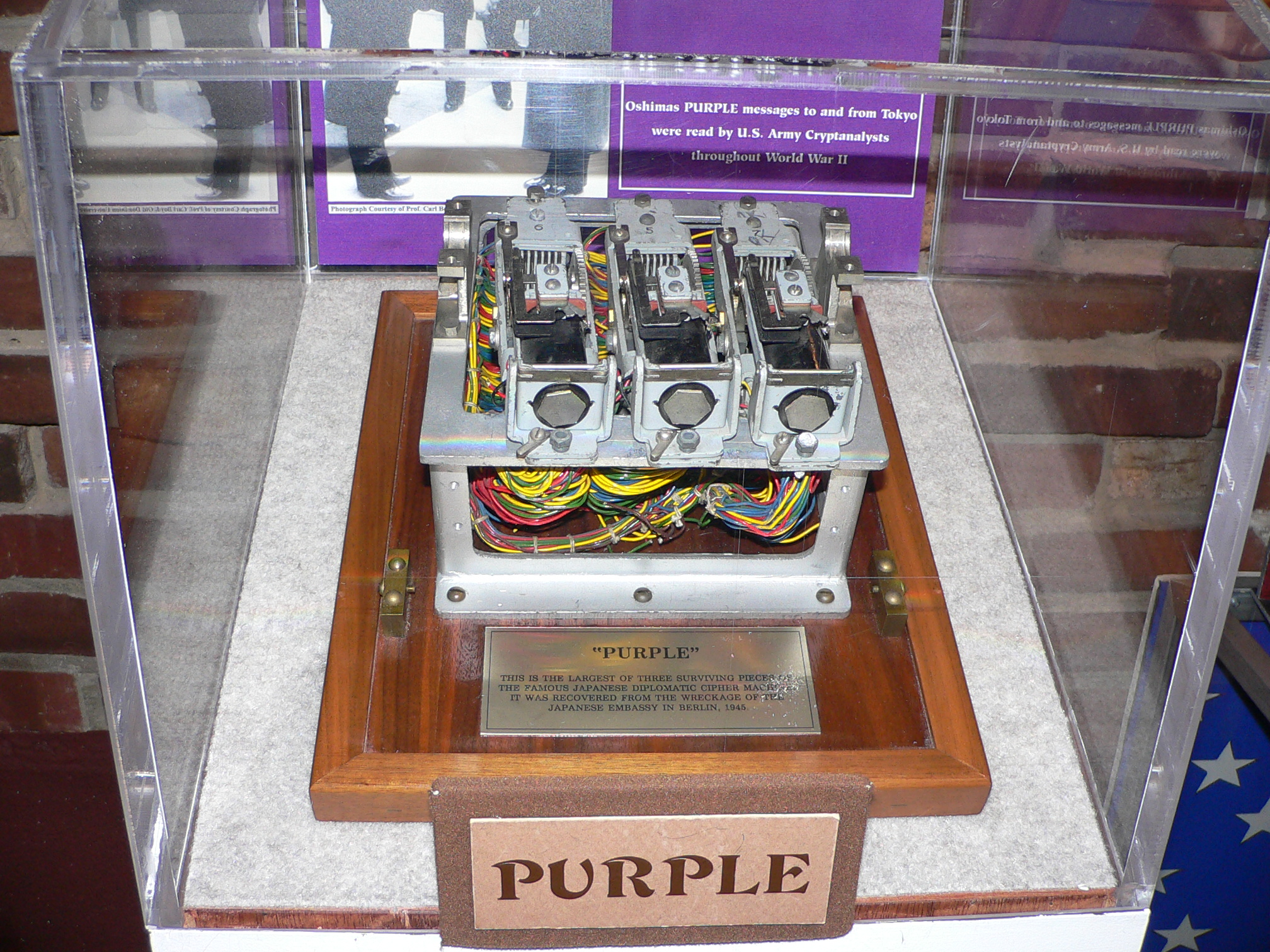 Fragment of a Purple machine on display at the United States National Security Agency's National Cryptologic Museum located in Ft. Meade, Maryland. The plaque at the base of the machine fragment reads: " 'Purple' This is the largest of three surviving pieces of the famous Japanese diplomatic cipher machine. It was recovered from the wreckage of the Japanese embassy in Berlin, 1945."